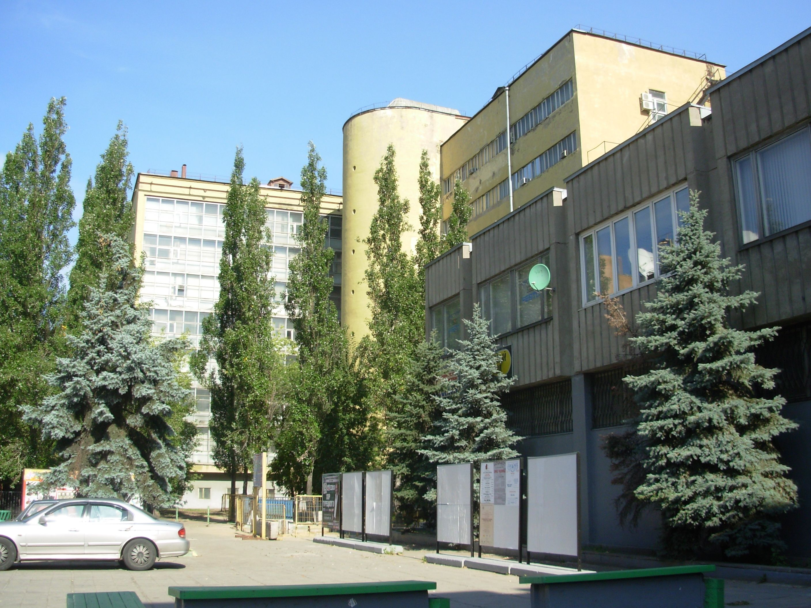 Moscow Power Engineering Institute Russia